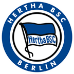 Logo Hertha